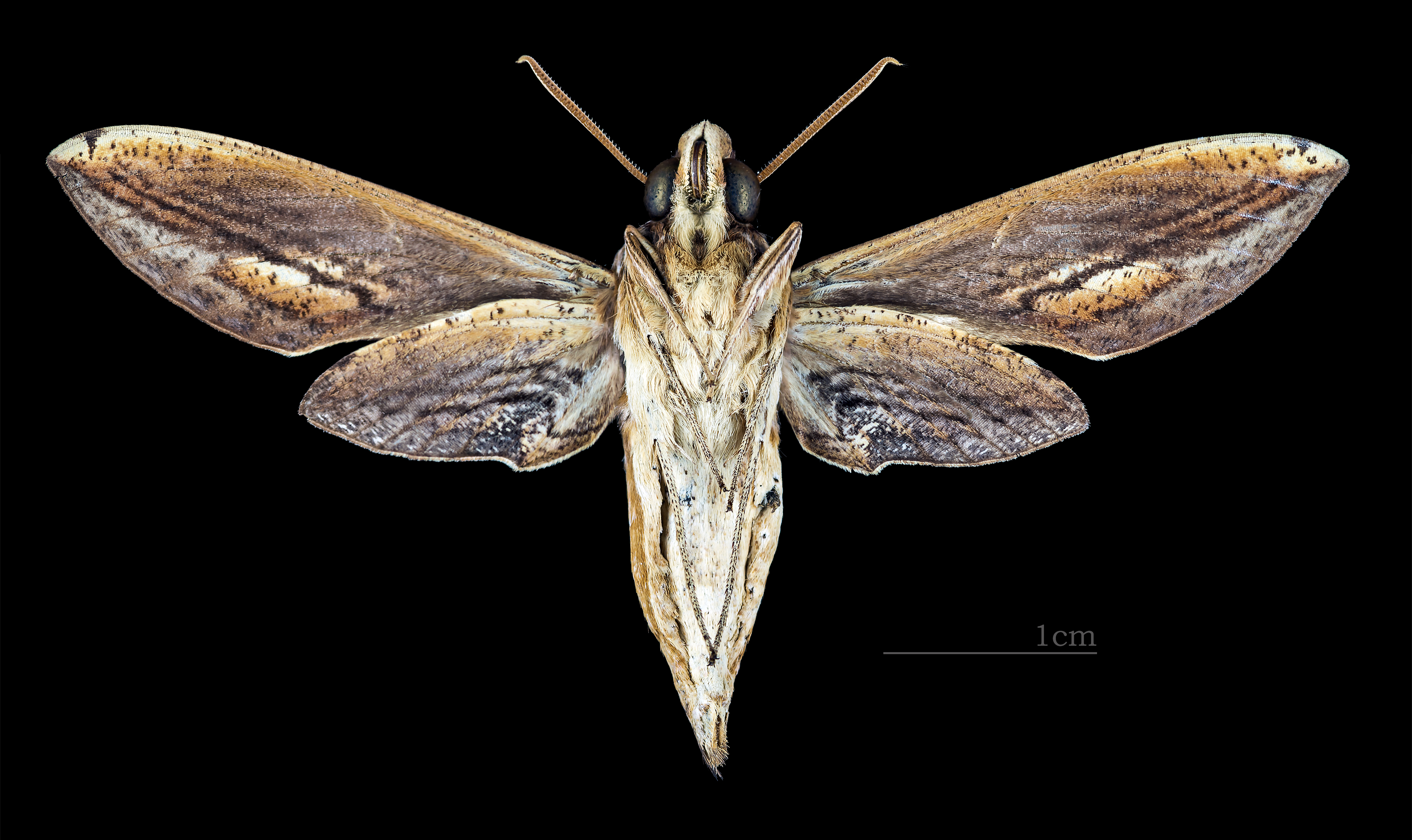 Xylophanes thyelia - △ Ventral side